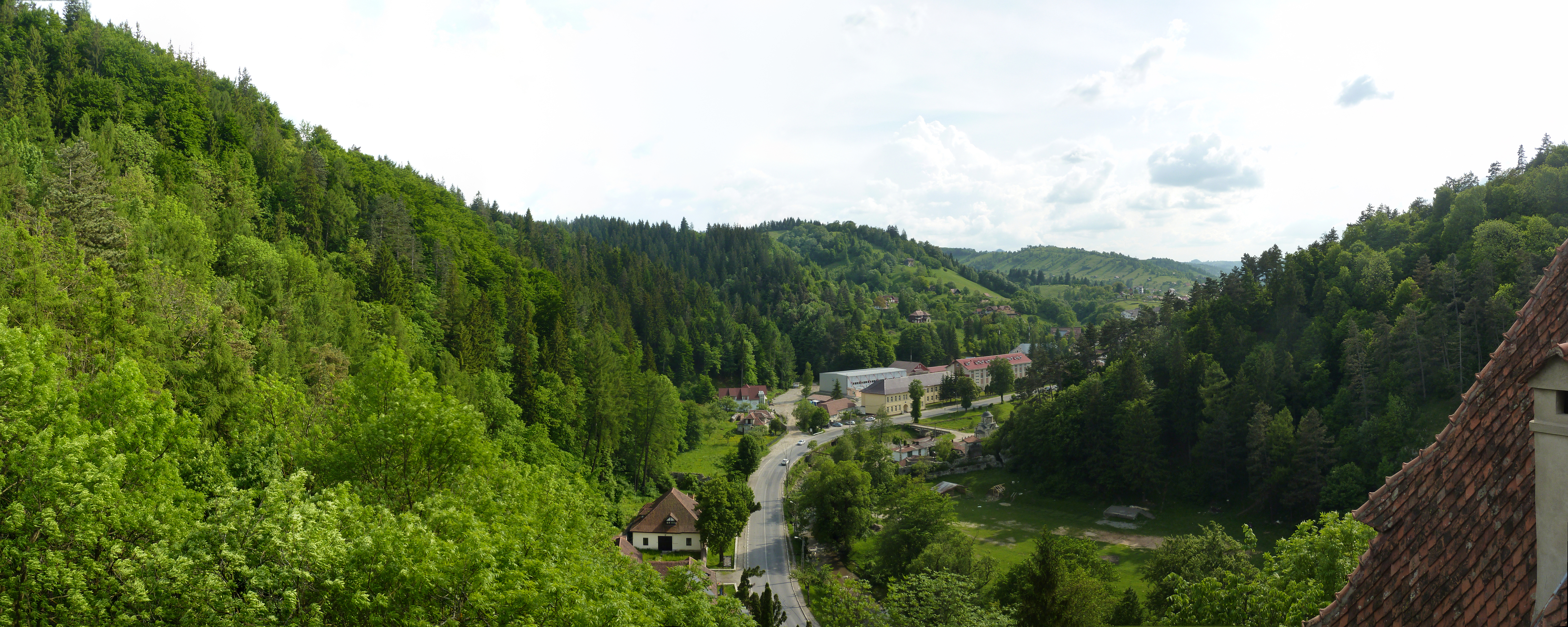 Vue du chateau de Bran